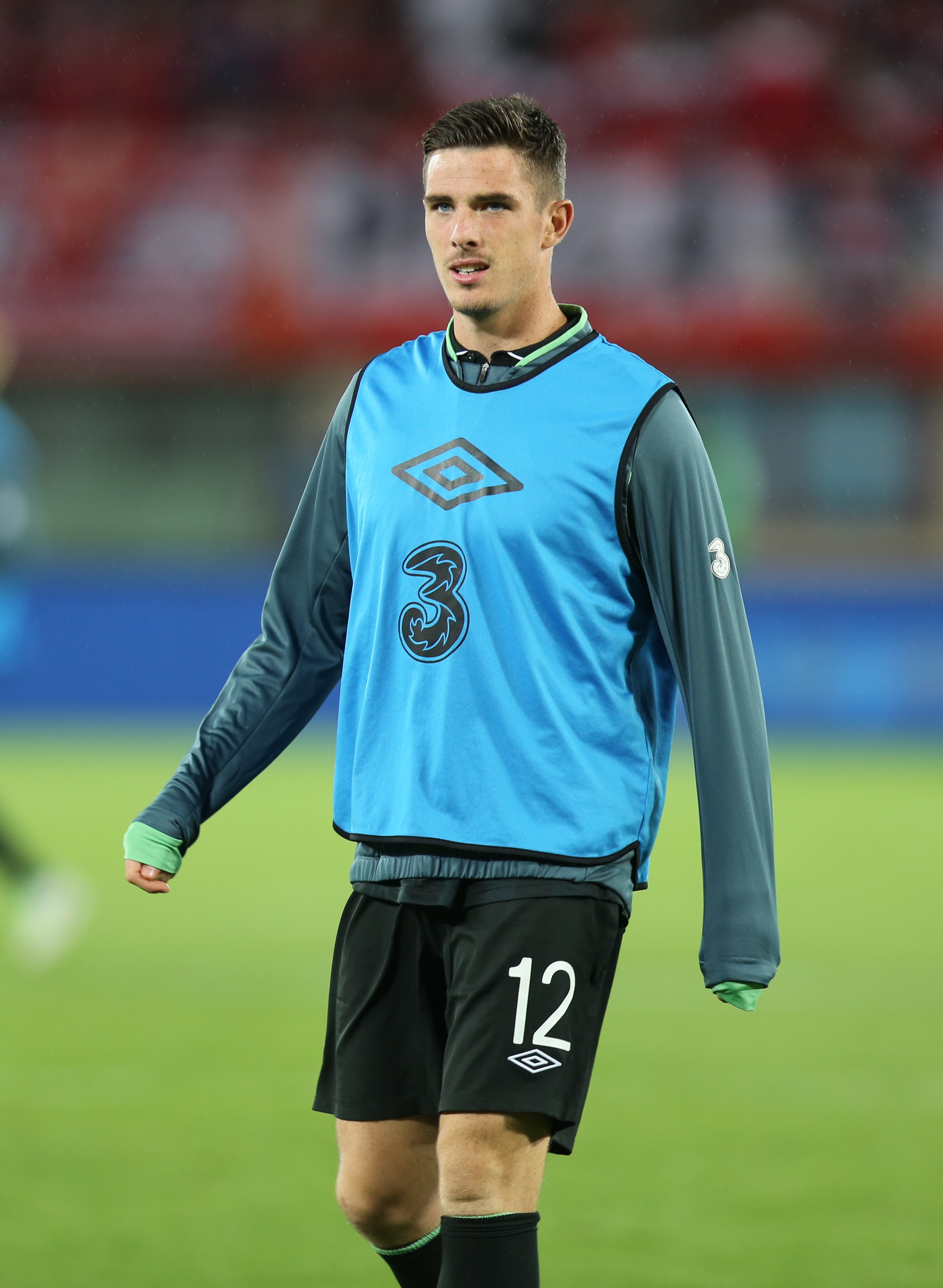 2014 FIFA World Cup qualification (UEFA), Group C: Republic of Ireland national football team at 10. September 2013 before the match against the Austria national football team (0:1) in the Ernst-Happel-Stadion in Vienna. Here:Ciaran Clark, Irish defender and midfielder. The making of this work was supported by Wikimedia Austria. For other files made with the support of Wikimedia Austria, please see the category Supported by Wikimedia Österreich.